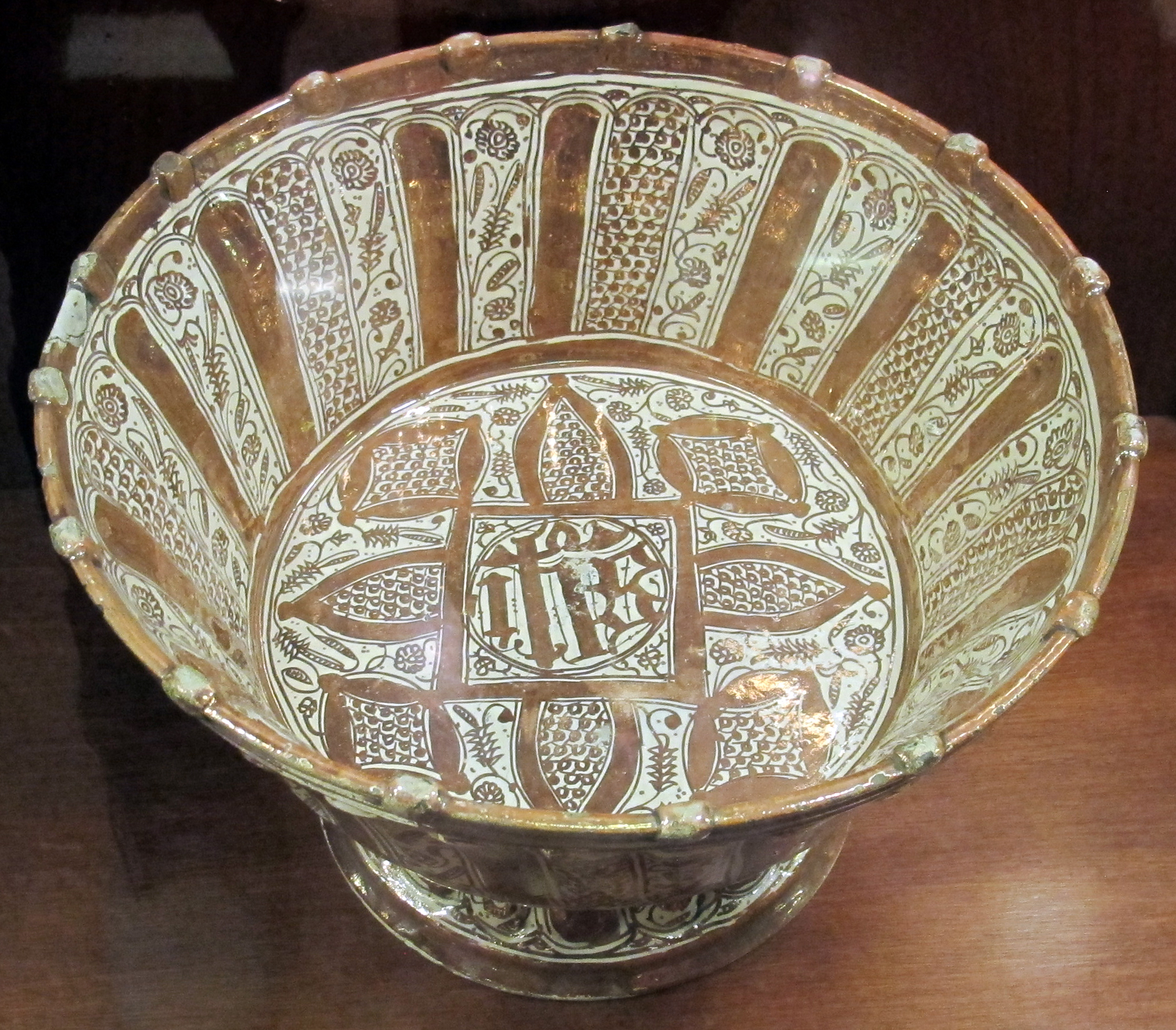 Spanish maiolica in the Hispanic Society of America